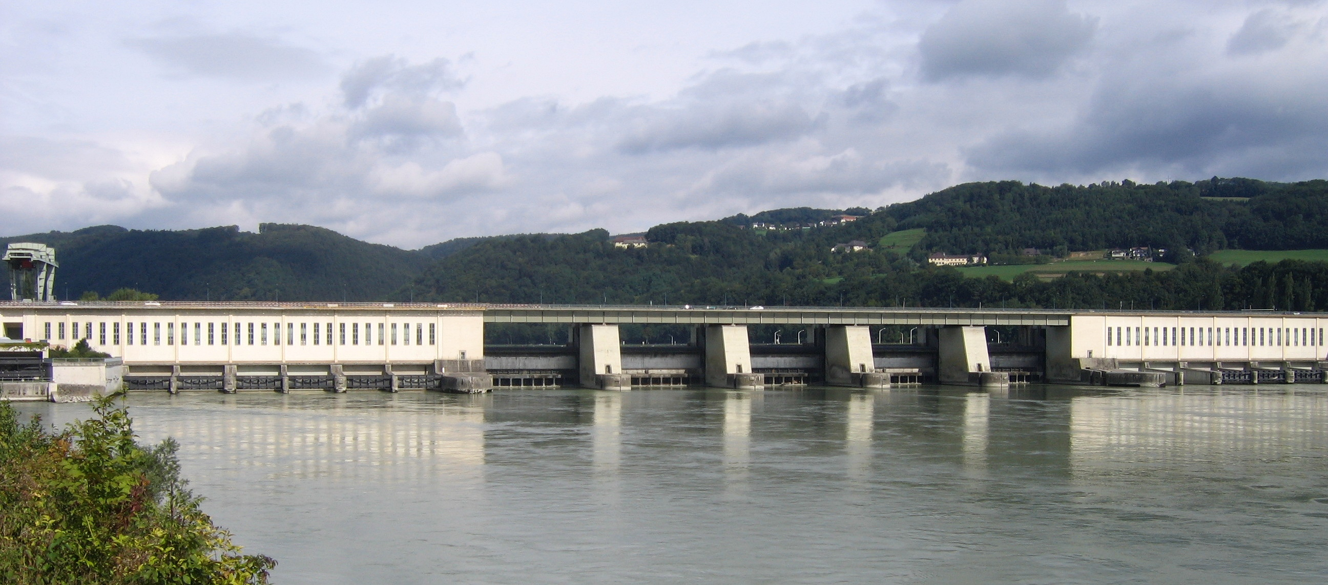 Austria, powerplant Ybbs-Persenbeug, seen from Ybbs